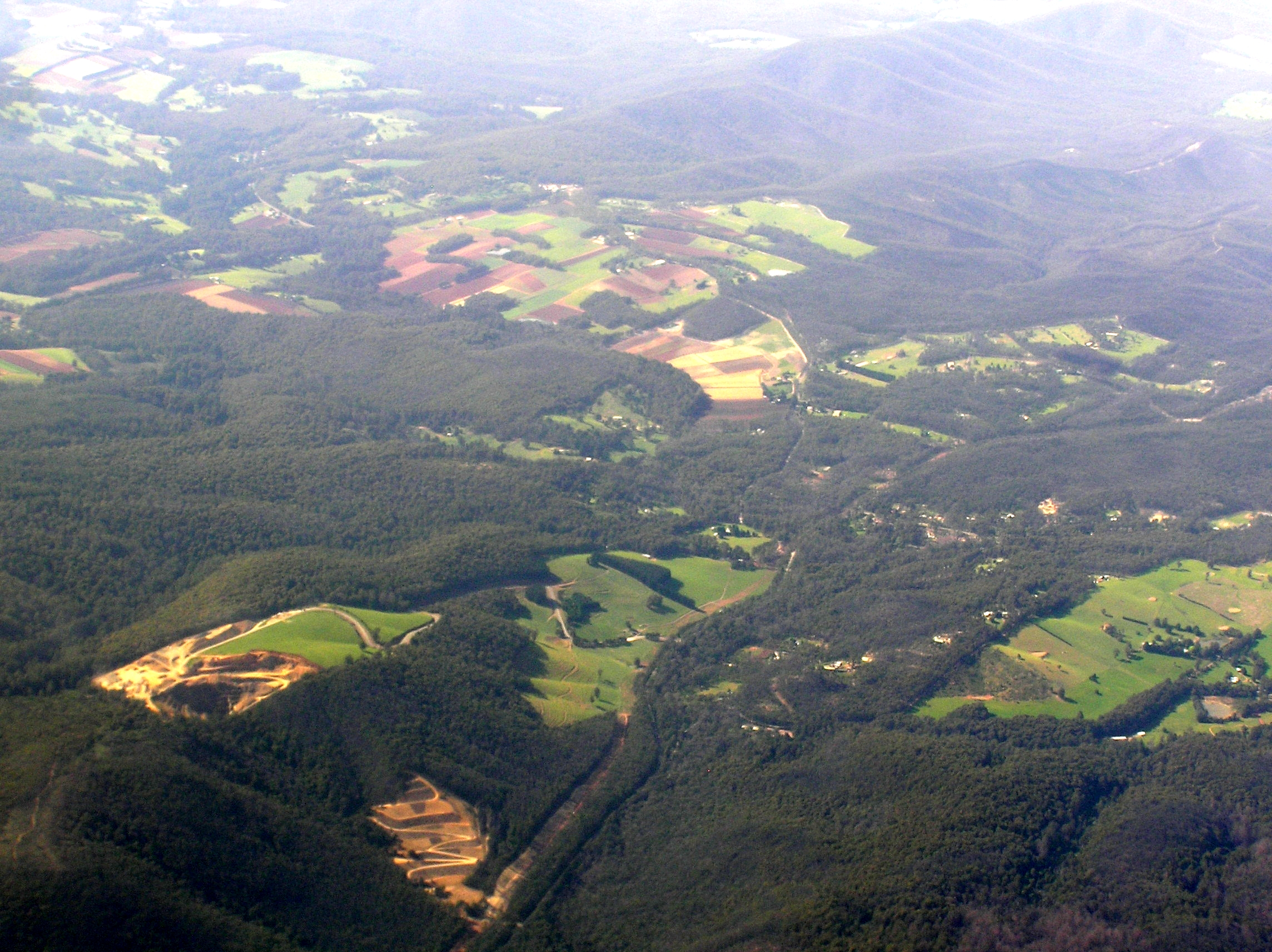 Aerial view of Castella Victoria and the Healesville-Kinglake Raad from north